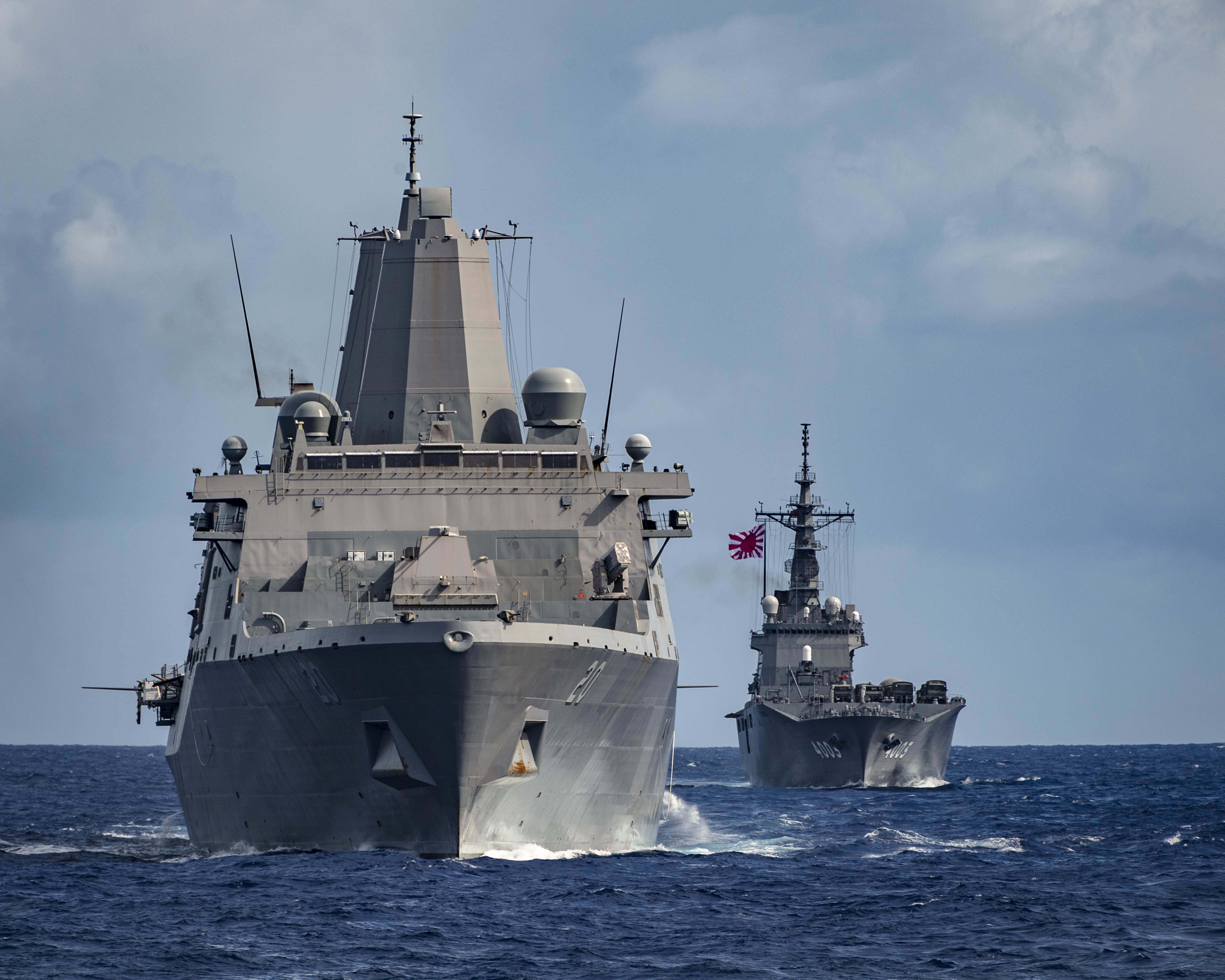 PHILIPPINE SEA (June 8, 2019) The amphibious transport dock ship USS Green Bay (LPD 20) and the Japan Maritime Self-Defense Force amphibious transport dock ship JS Kunisaki (LST 4003) sail in formation during a training exercise with other U.S. Navy and Japan Maritime Self-Defense Force warships. Ashland is underway conducting routine operations as part of the Wasp Amphibious Ready Group (ARG) in the U.S. 7th Fleet area of operations. (U.S. Navy photo by Mass Communication Specialist 2nd Class Markus Castaneda/Released)190608-N-WI365-1036